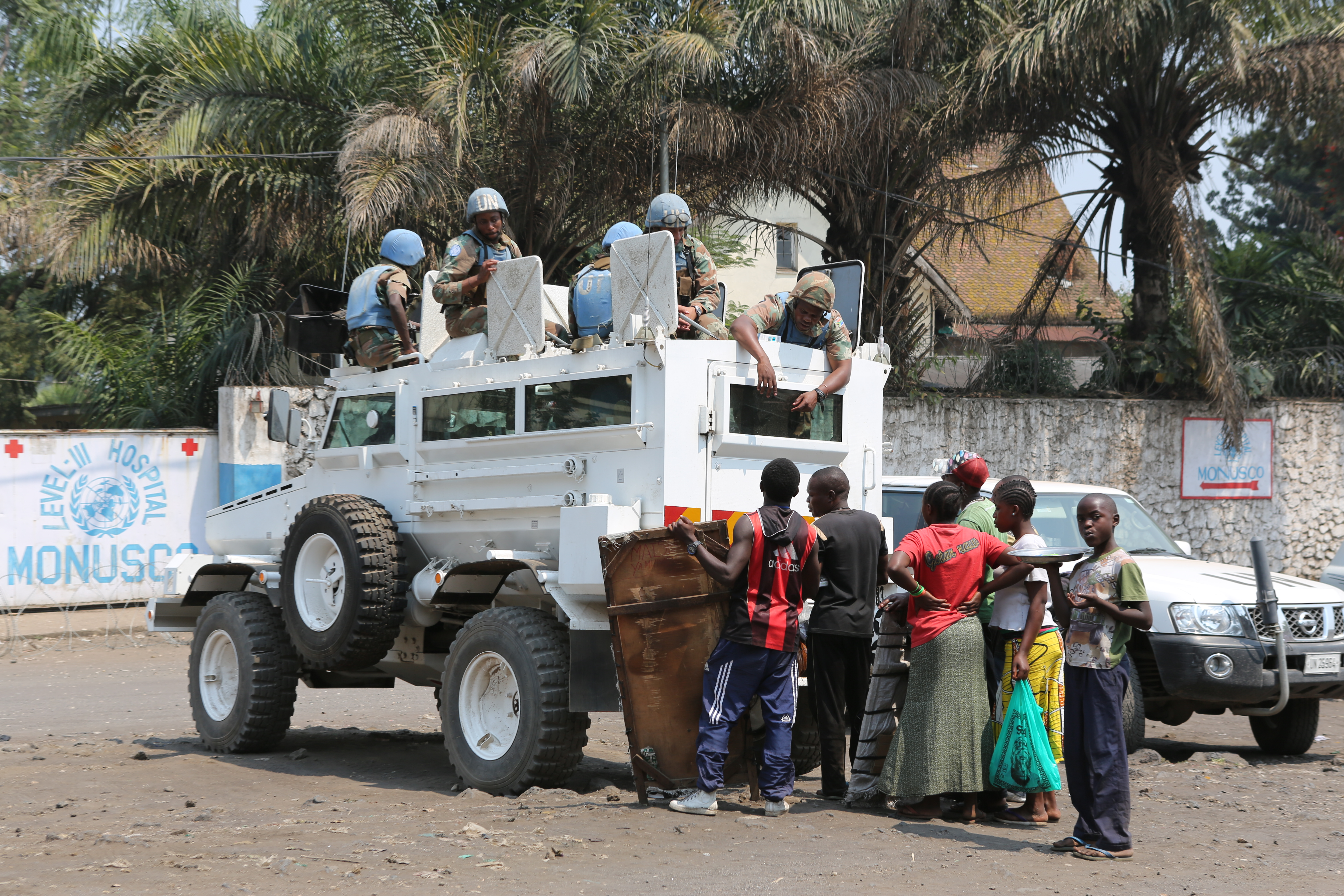 2013-07-16-19th-DRC Goma North Kivu (CLA) Community Liaison Assistants on working environment in Goma city and on the field at Otobora. Photo MONUSCO/ Myriam Asmani